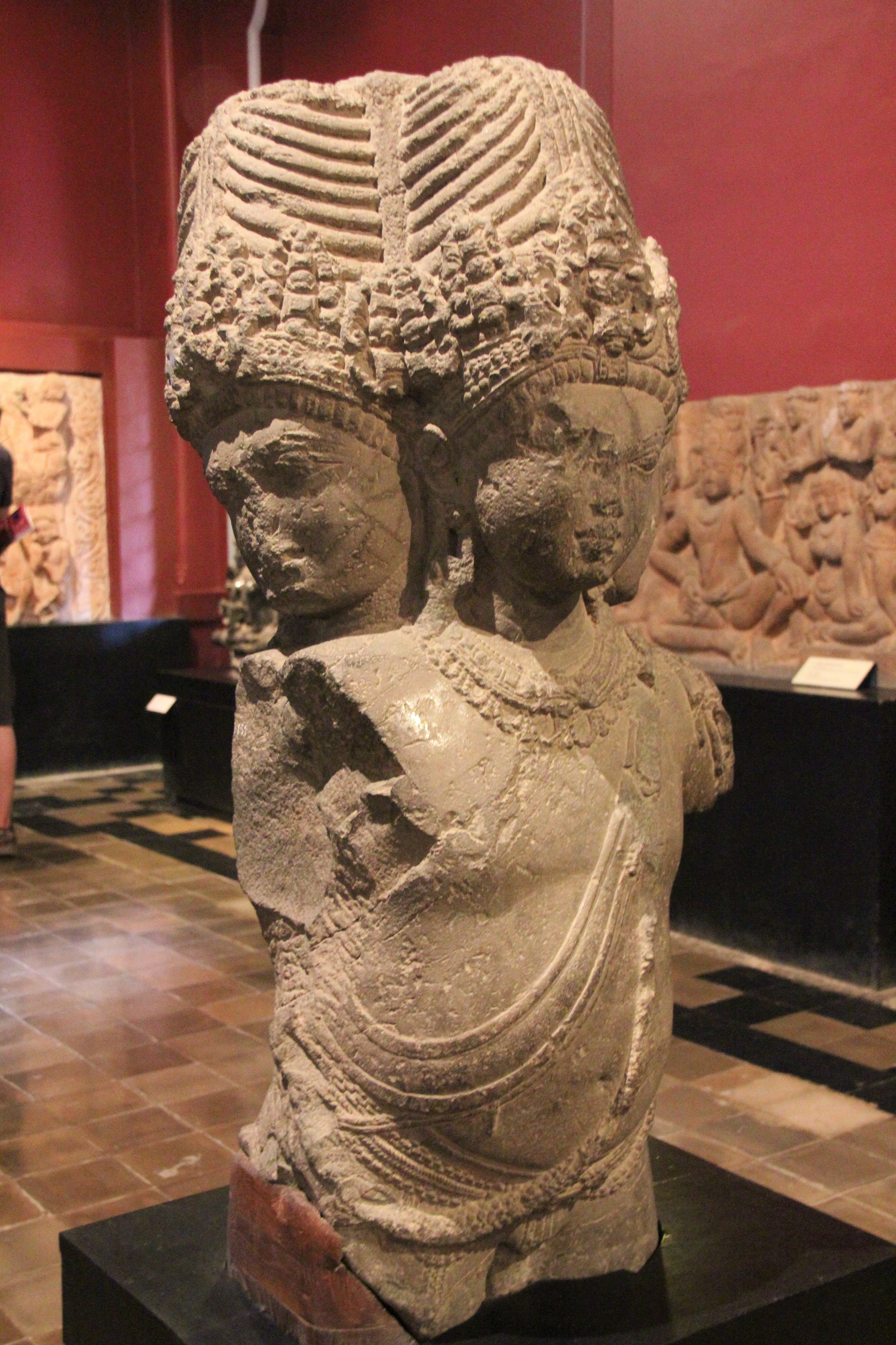 Brahma statue made of Basalt dating back to 6th century CE. Statue found in Elephanta caves, Maharashtra. On display at Prince of Wales museum, Mumbai.